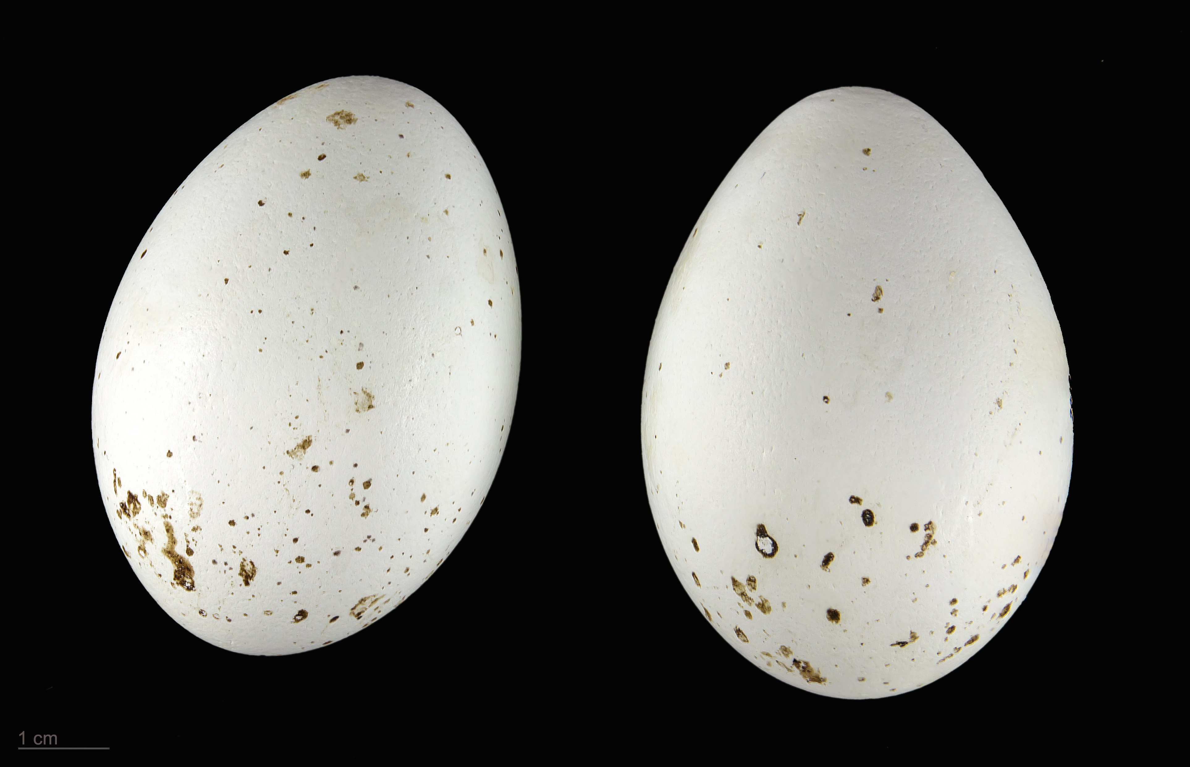 Eggs of northern bald ibis Two specimens of the same spawn ; collection of Jacques Perrin de Brichambaut.